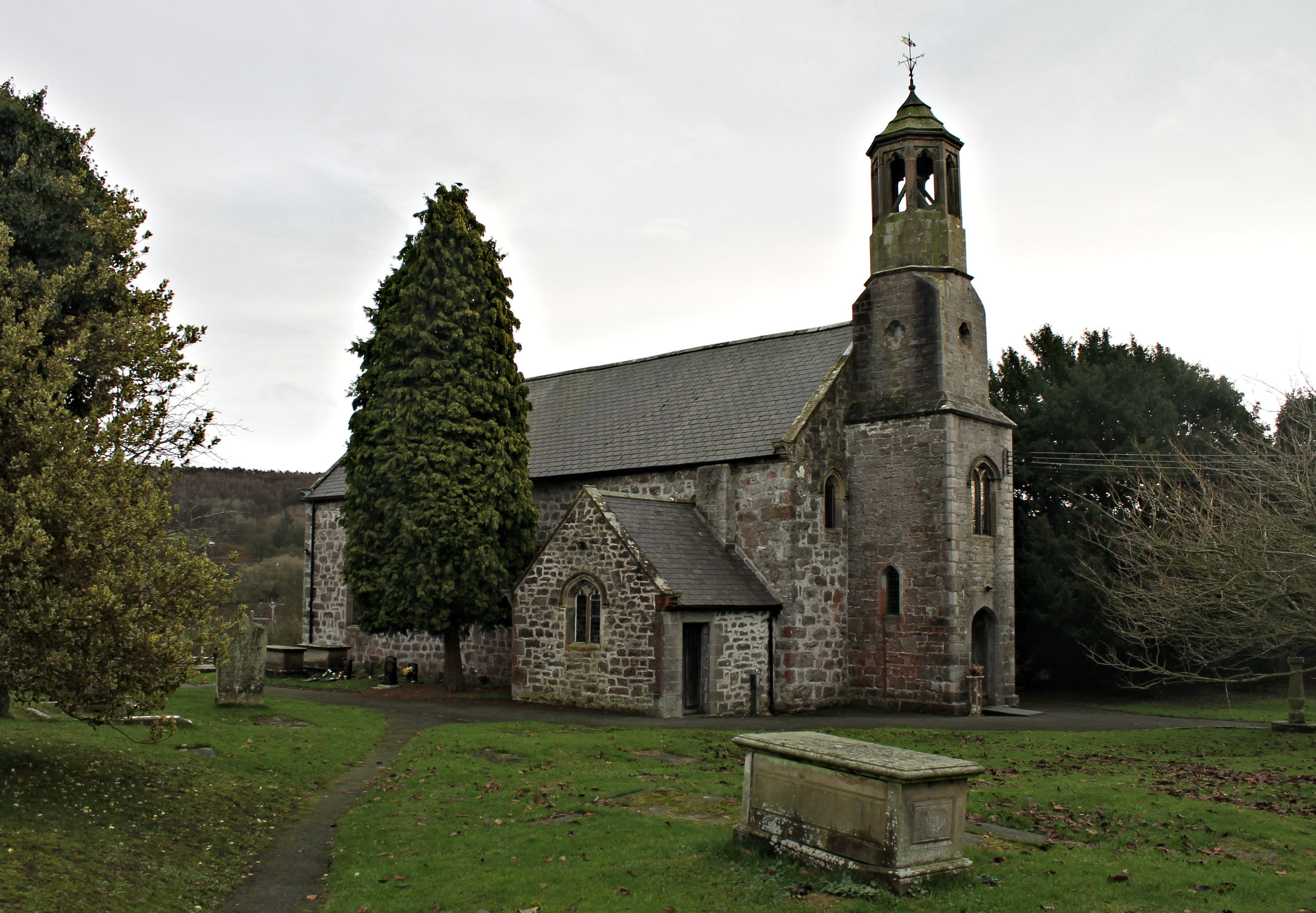 St Berres' Church is a Grade II listed building, between Rhuthun and yr Wyddgrug (Ruthin and Mold).